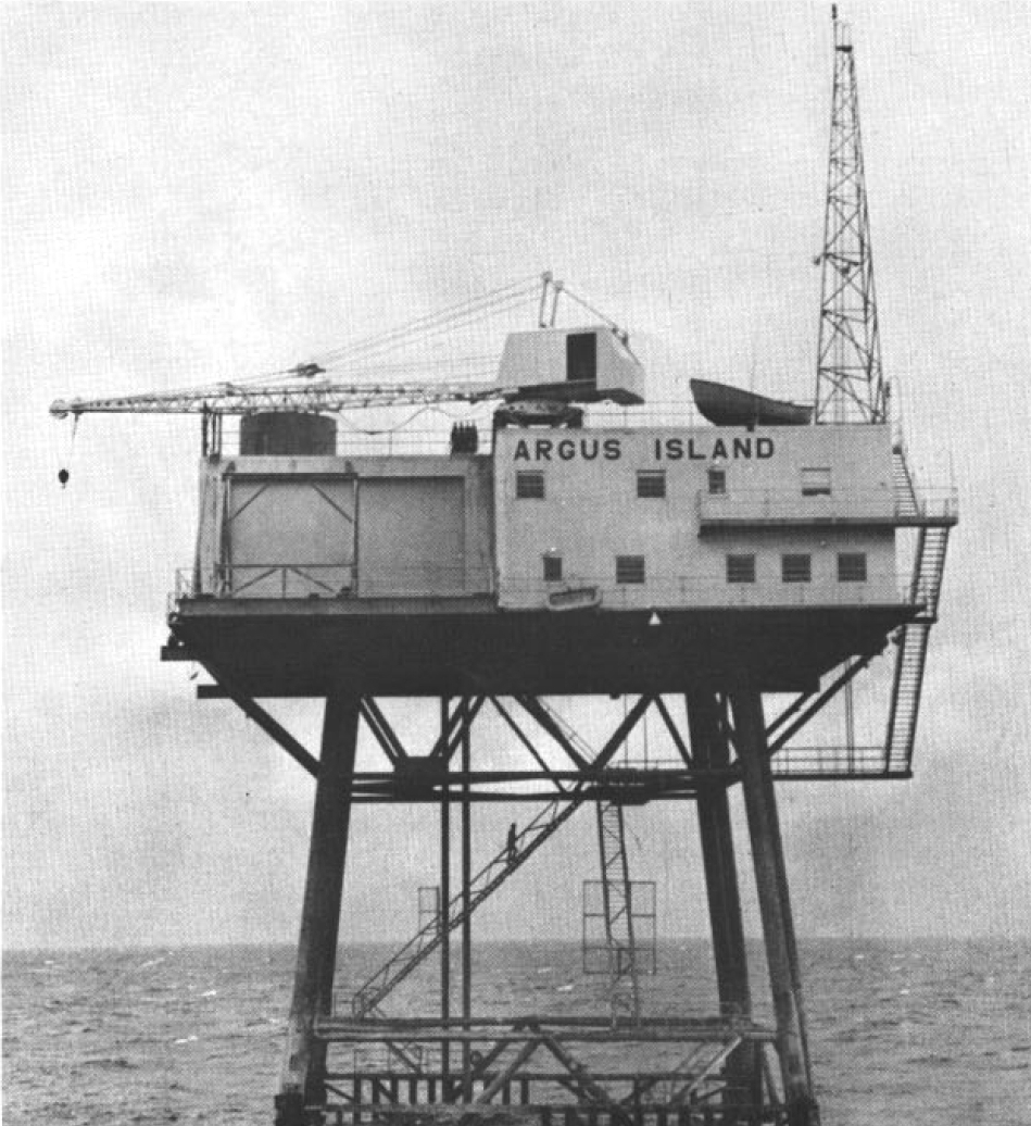 View of the U.S. Navy Argus Island Tower on Plantagenet Bank, Bermuda, circa 1963. The tower was part of "Project Artemis" which was undertaken by the United States Navy in the 1960s. It produced a Low Frequency Active Sonar system that could detect submarines at long range. Part of the Artemis system was the Argus Island Tower, an oceanographic research tower, which had been erected in 1961 on Argus Bank 56 km southwest of Bermuda in 59 m of water. After eight years of use, the tower was condemned as unsafe in 1970 and was demolished in 1976.